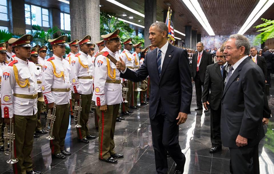 U.S. President Barack Obama and Cuban President Raúl Castro at an official welcoming ceremony for President Obama at the Palace of the Revolution in Havana, Cuba on March 21, 2016.